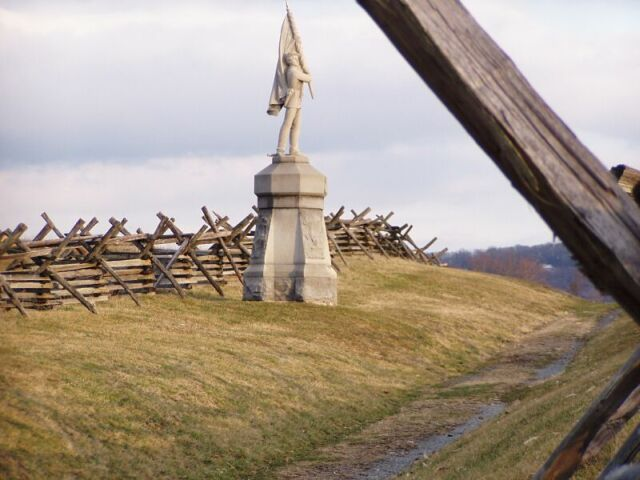 Sunken Road, where the Confederate Gen. D.H. Hills troops held against the Union attack.